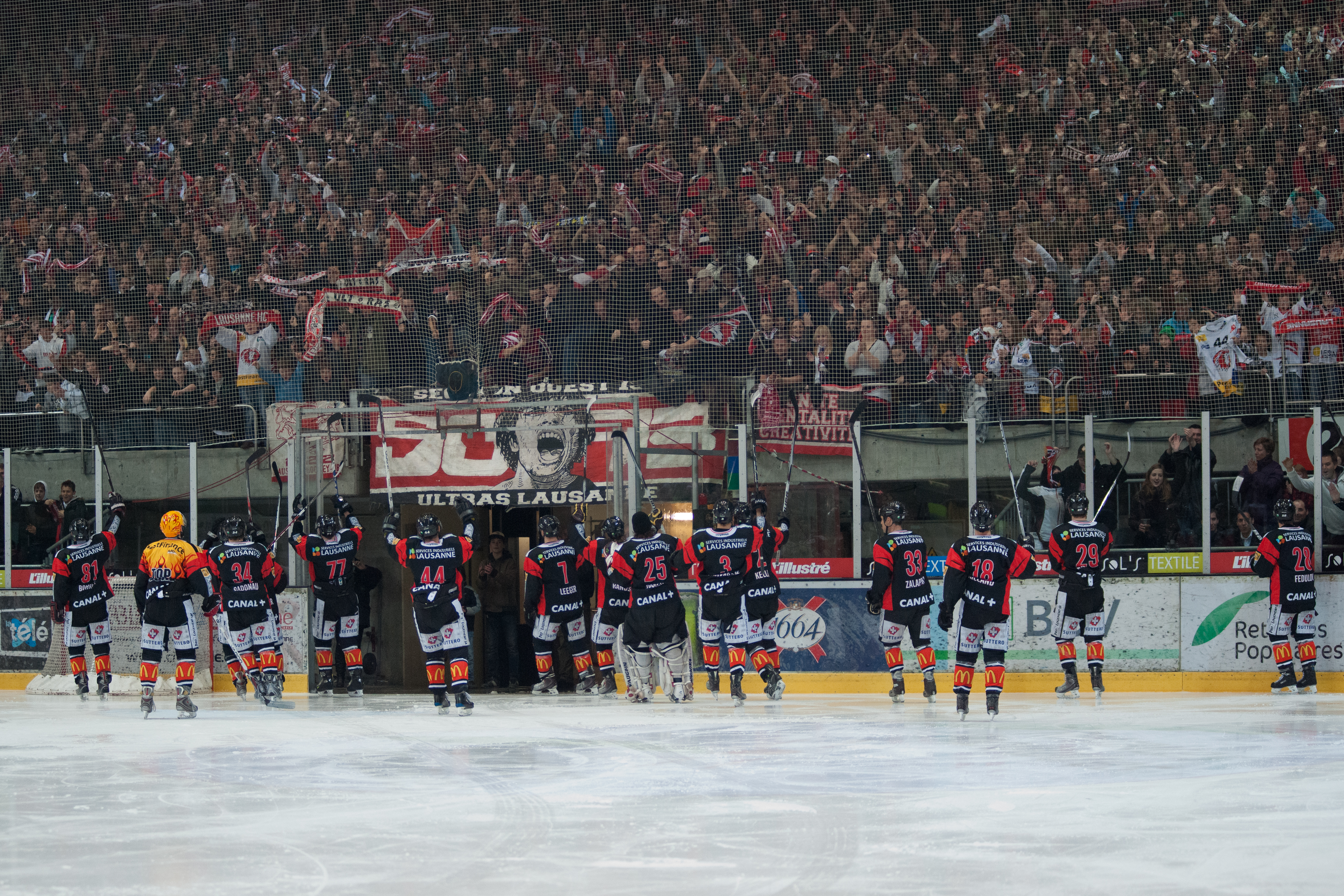 The making of this document was supported by Wikimedia CH. (Submit your project!) For all the files concerned, please see the category Supported by Wikimedia CH.